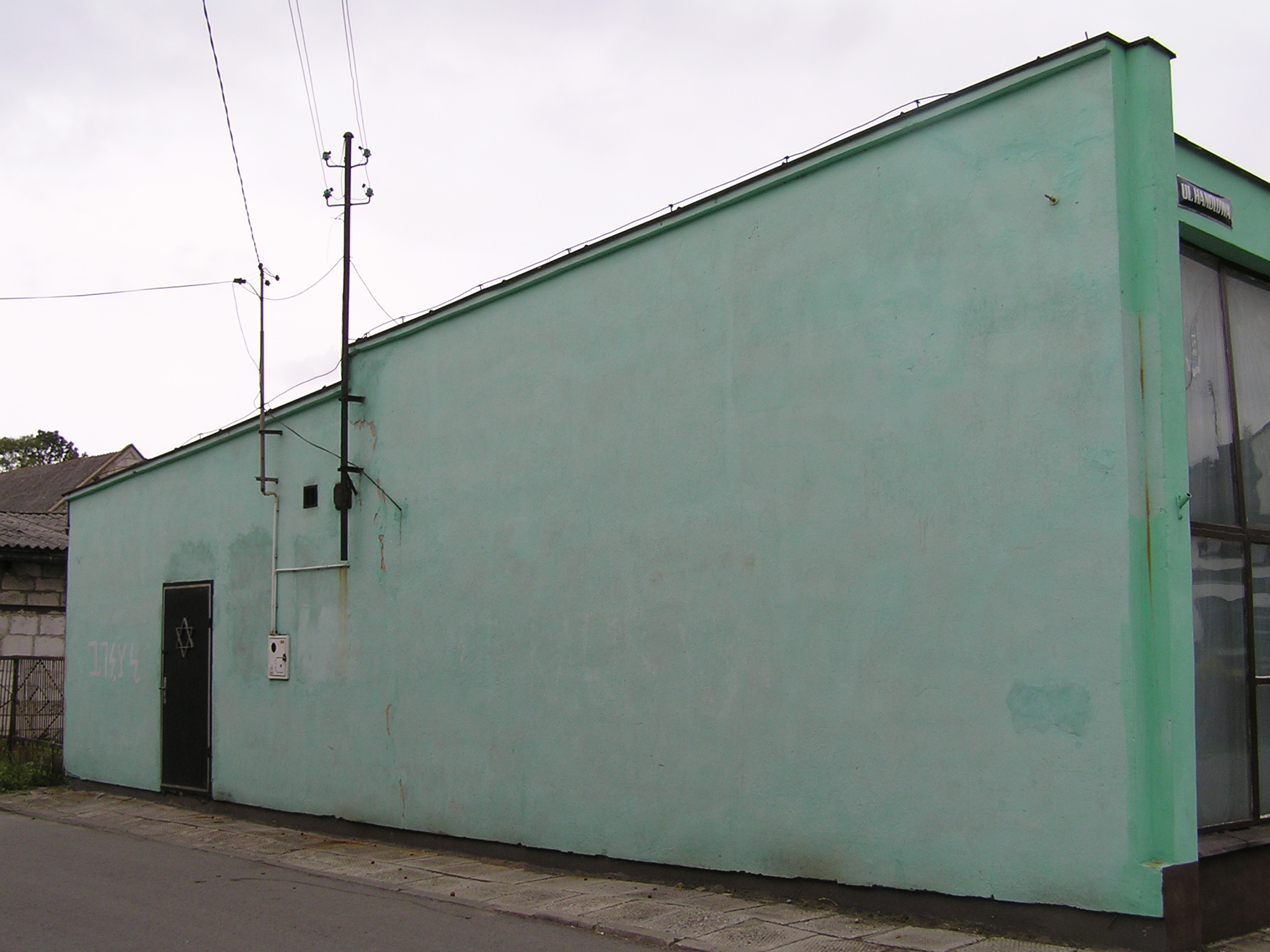 The grave of Rabbi Dovid (1746-1814) of Lelów Photo taken by Mikolaj Welon